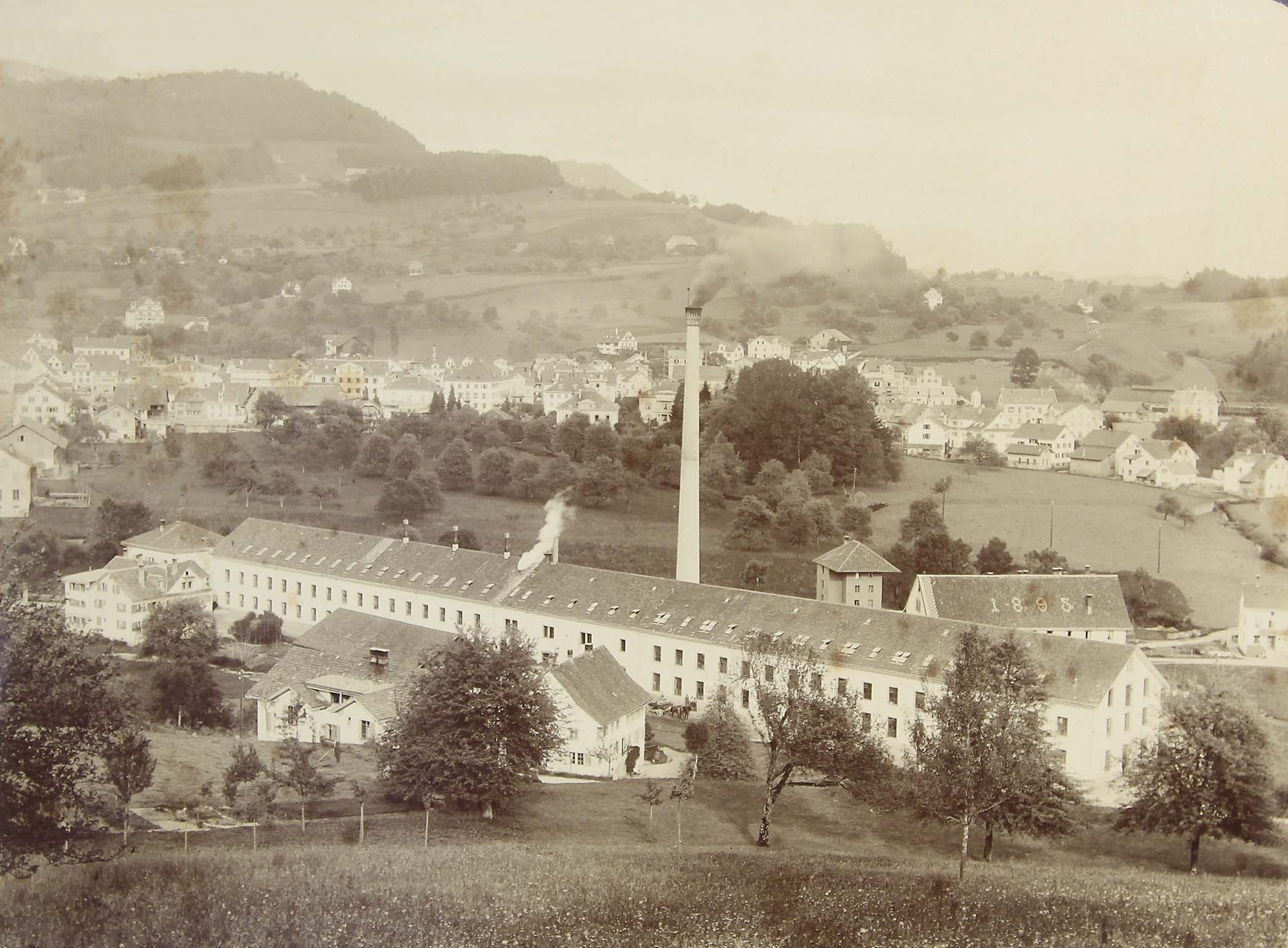 Weberei Bleiche um ca. 1900, Blick nach Südosten